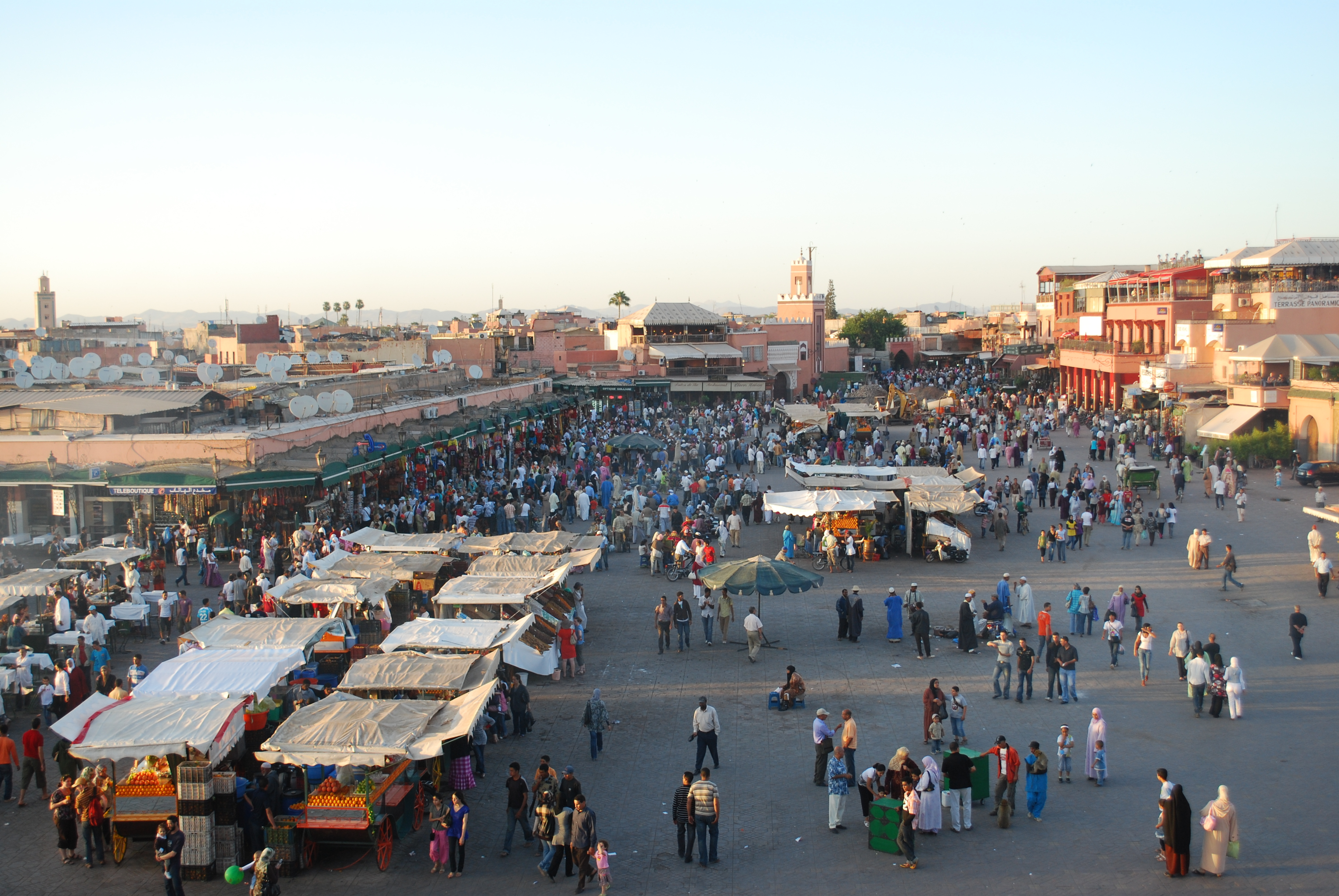 Medina of Marrakesh (Morocco)